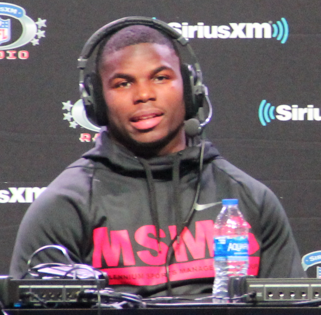 Allen Robinson and Tarik Cohen at the Super Bowl Experience, Jan 2019